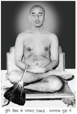 Muni Vidyananda ji